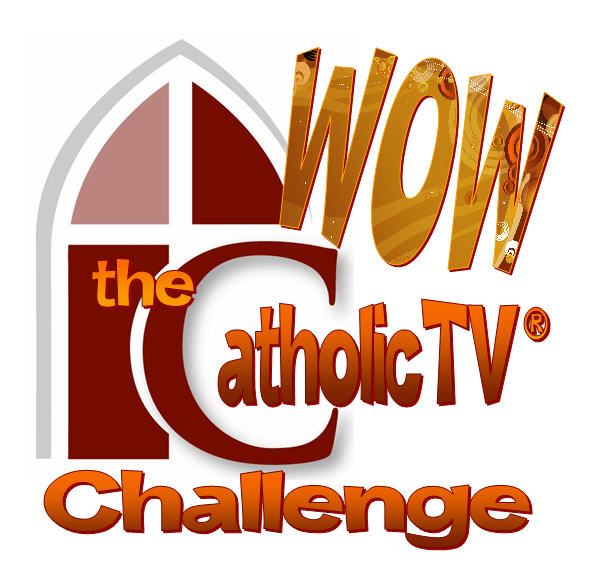 the official logo of WOW: The CatholicTV Challenge